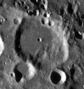 Quetelet lunar crater LRO-WAC mosaic